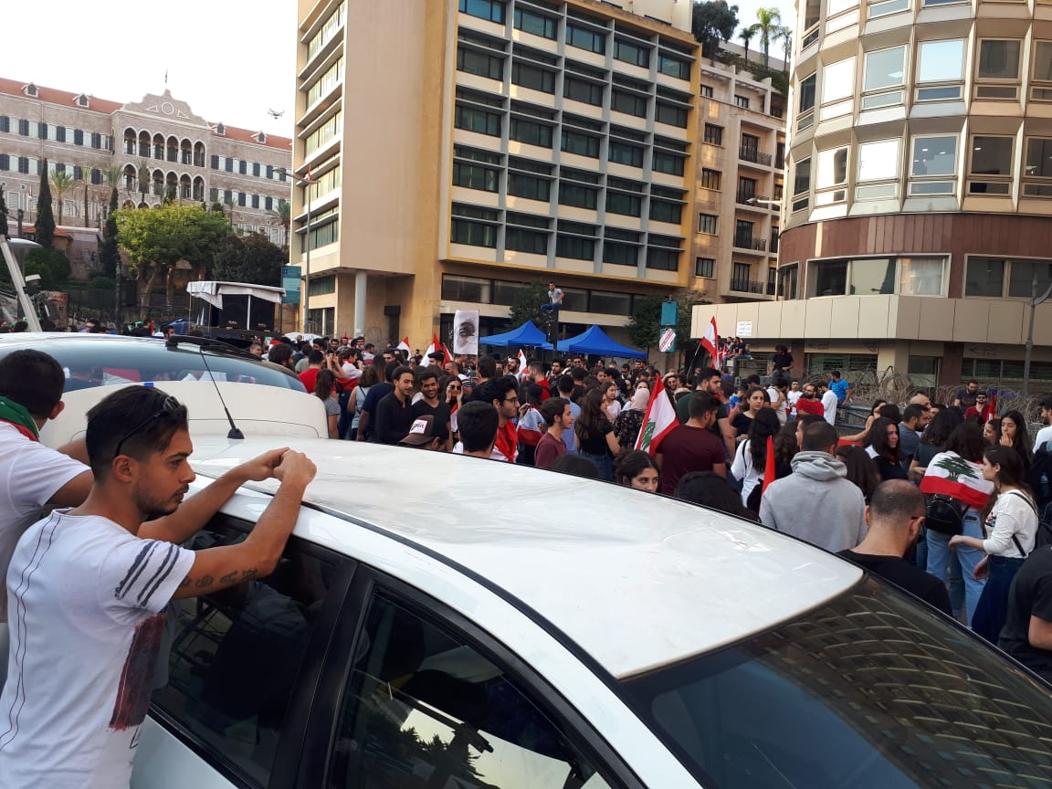 Riad Al Solh Square, 2019 Lebanese protest, 7 November 3029